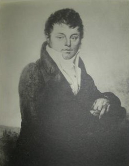 Henri Cogels